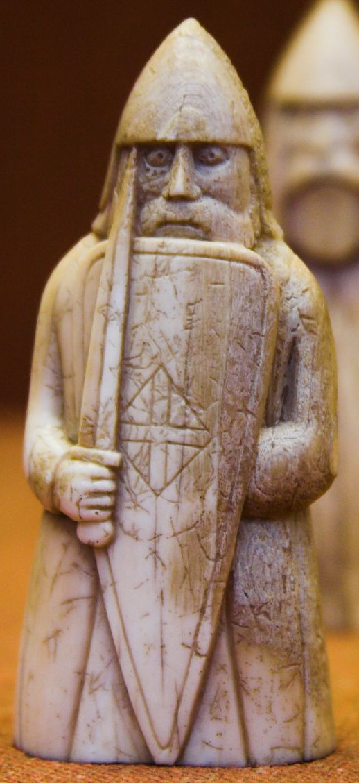 Lewis chessmen piece, British Museum.